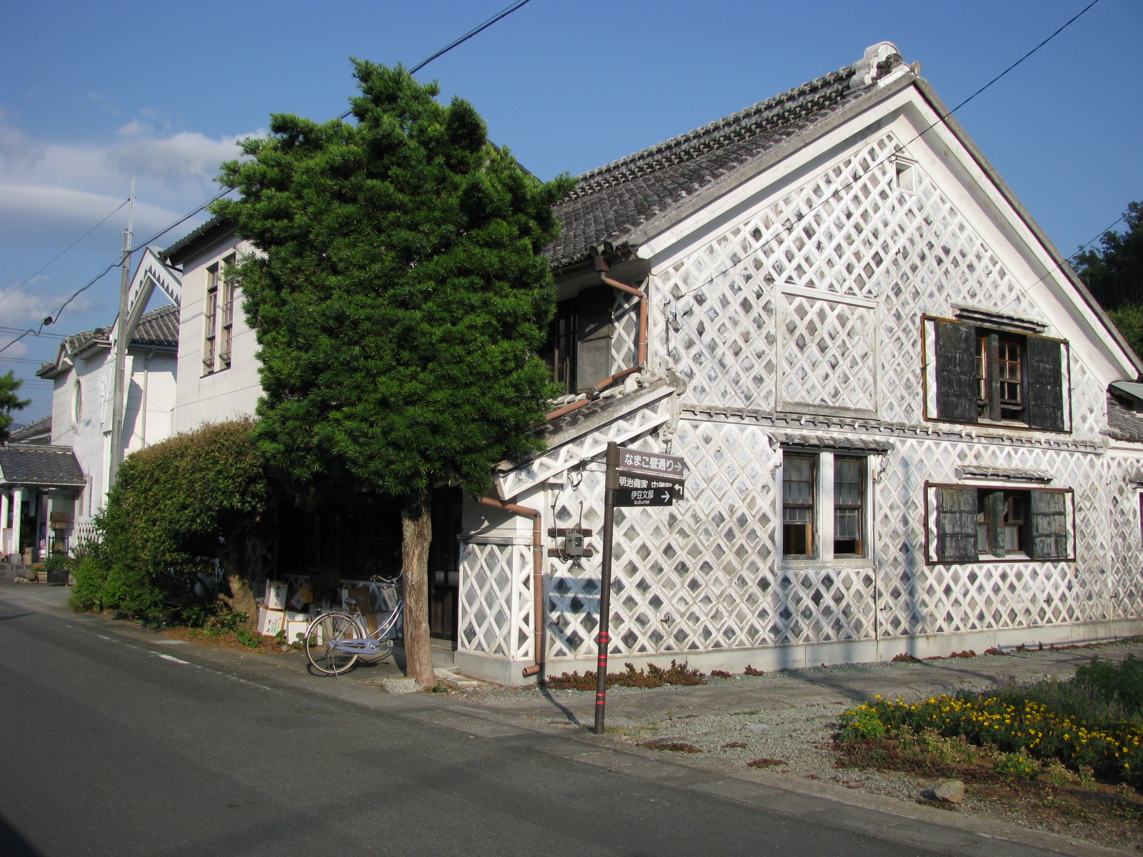 The Namako-kabe (Namako wall) is type of Japanese wall, made of flat roof tiles and plaster.